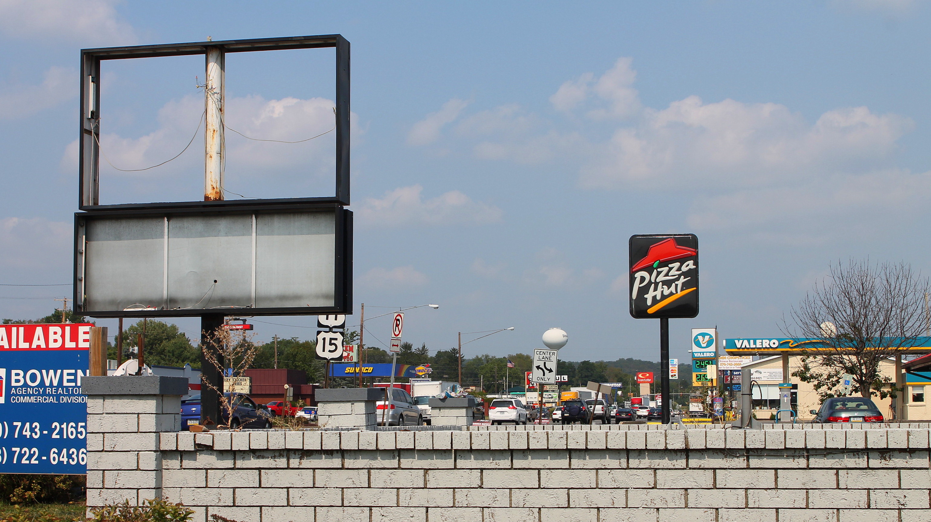 Development in Shamokin Dam, Pennsylvania, near US Route 11/US Route 15